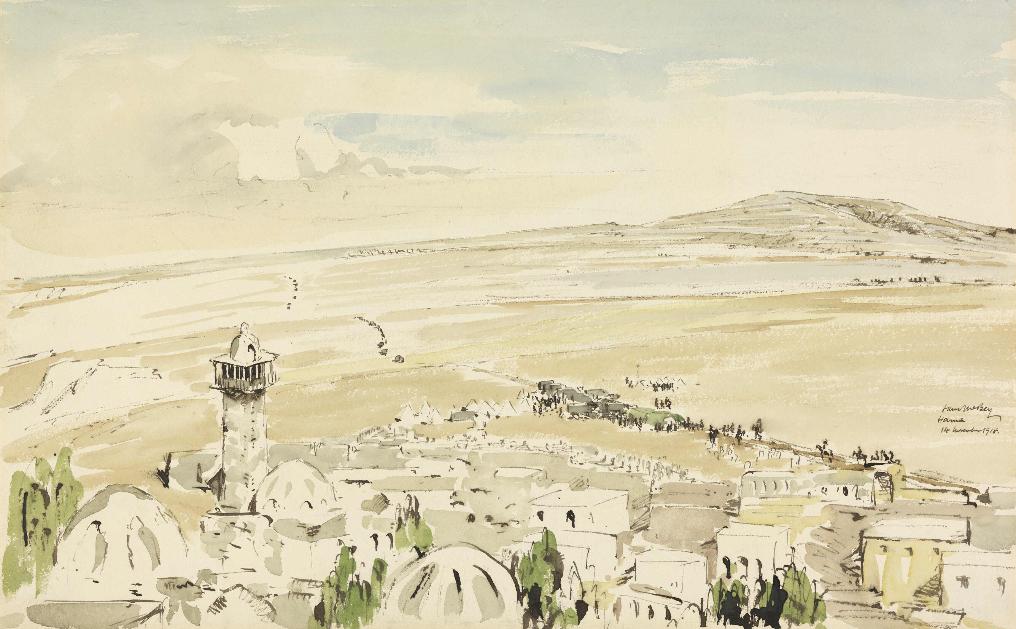 A View from Hama Citadel image: a view from an elevated position across the city of Hama and the surrounding desert landscape. In the foreground are the domed roofs of mosques, a minaret, and numrous houses and buildings. On the edge of the city is a military camp, with numerous bell tents, military trucks and a gathering of troops on a track leading away from the city. Further along the track, columns of motor transport make their way to and from the city.